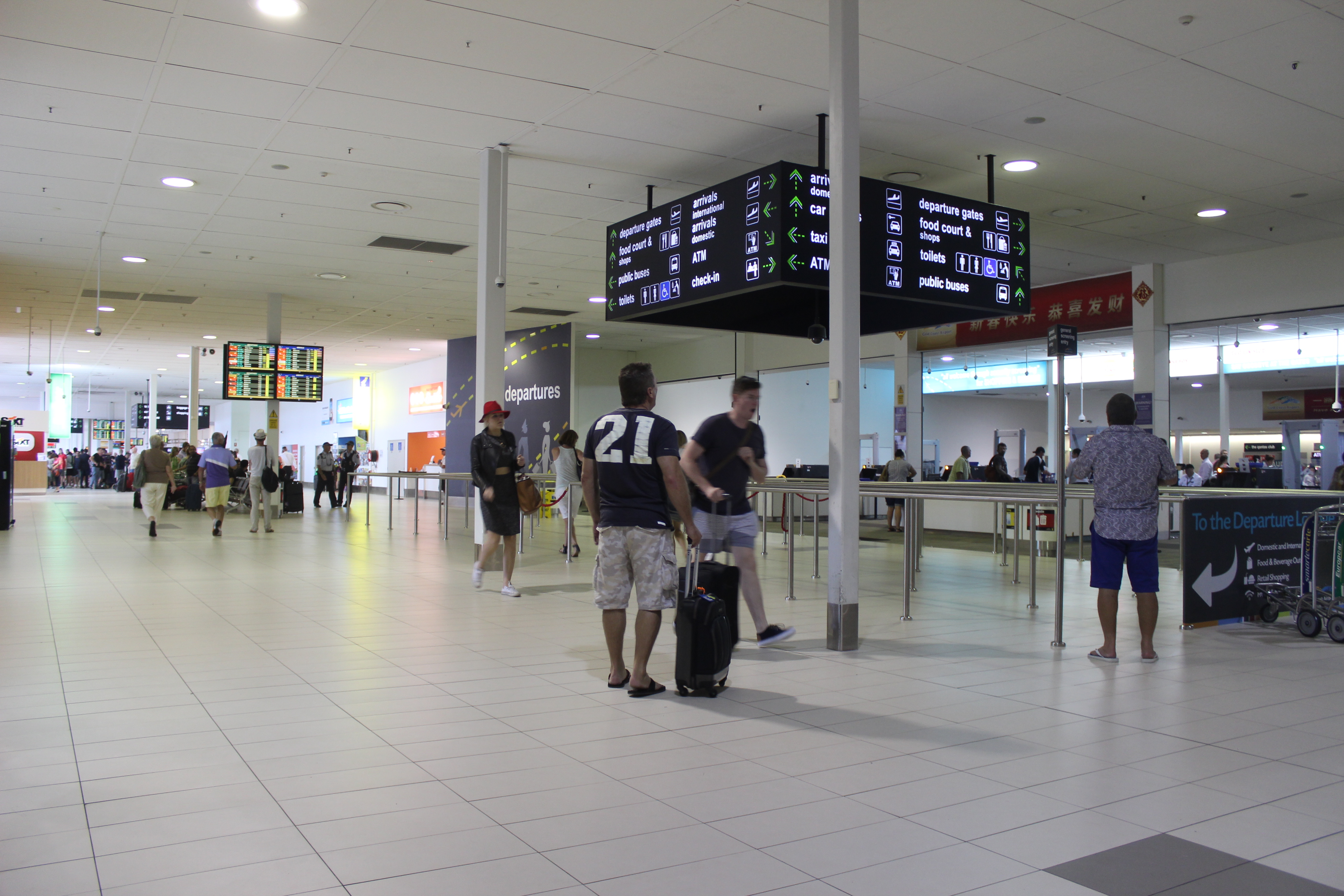 Photo of the newly-refurbished Gold Coast Airport terminal in the departures area.